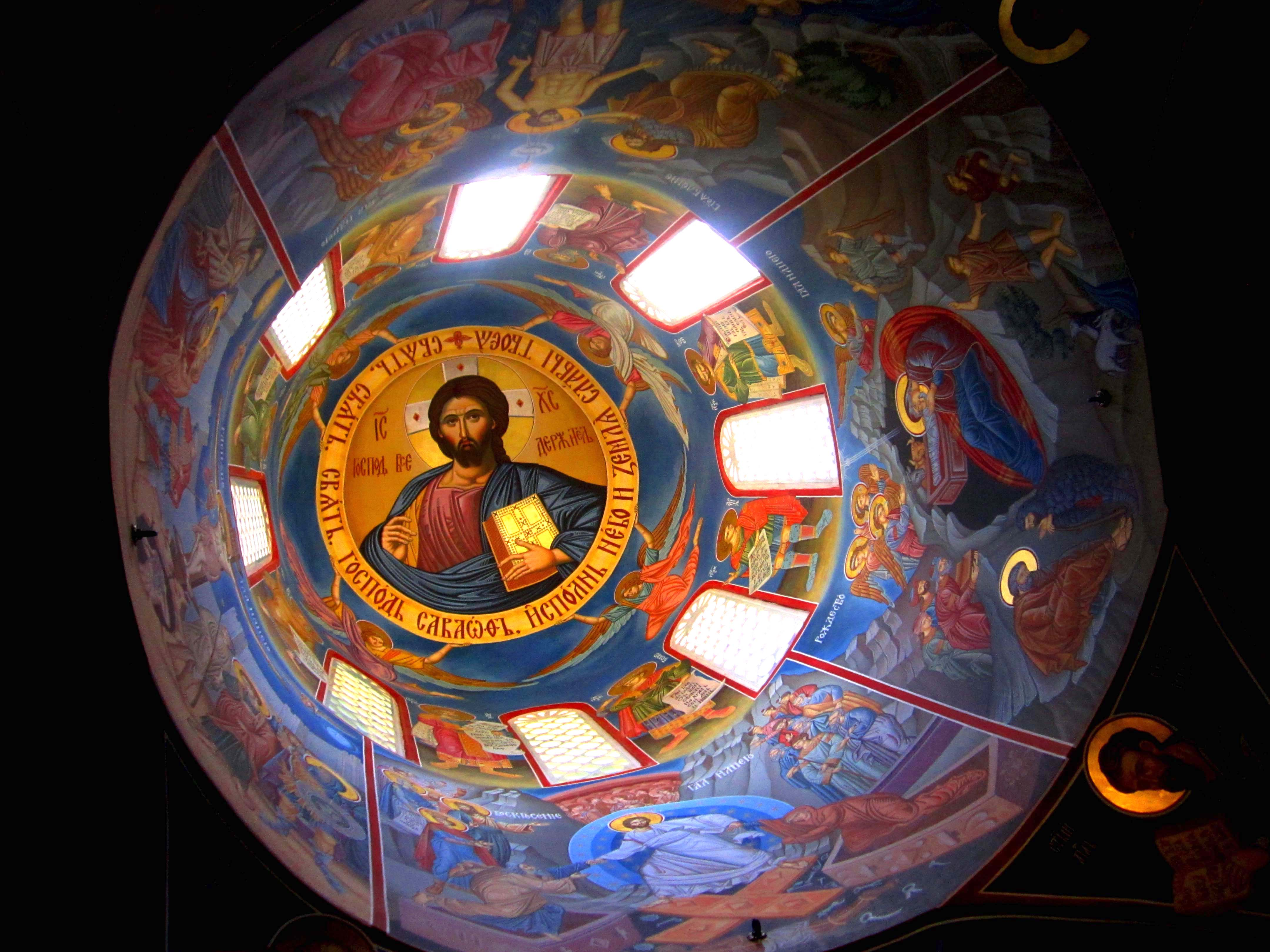 Saint Jovan Bigorski Monastery